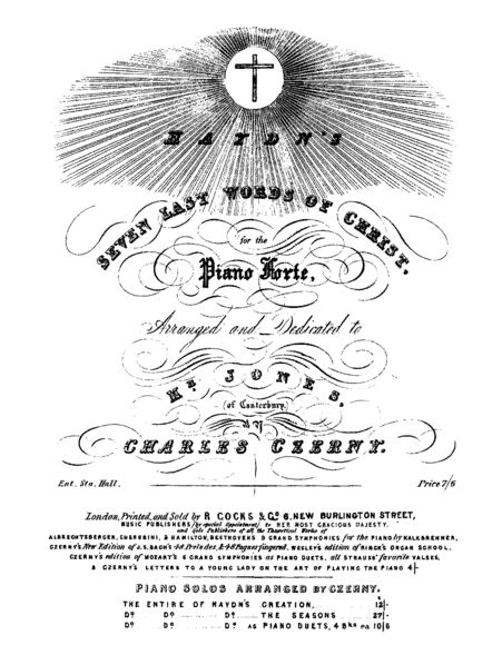 Front page of the Seven Last Words of Christ by Josef Haydn, arranged by Karl Czerny for pianoforte.